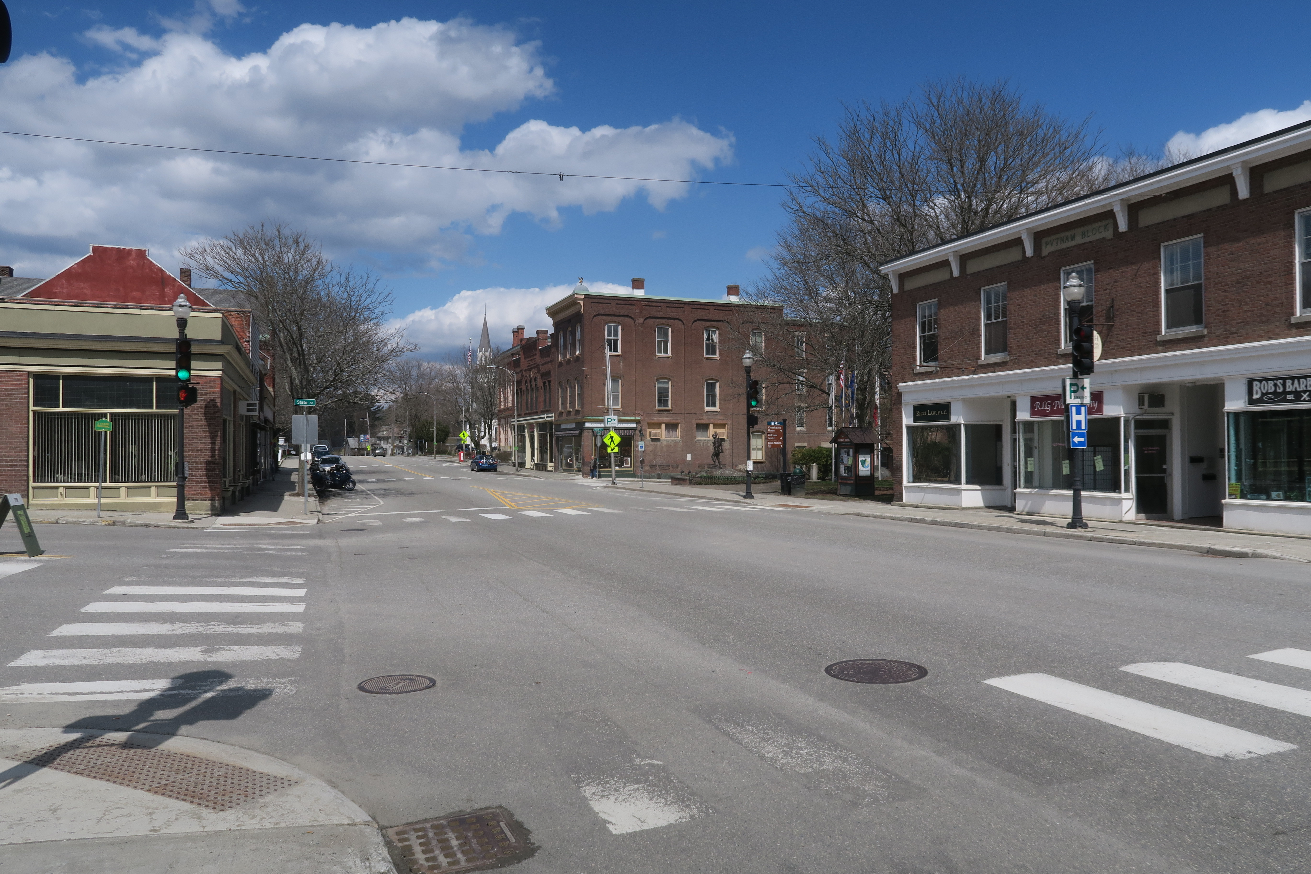 Main Street, Windsor Vermont